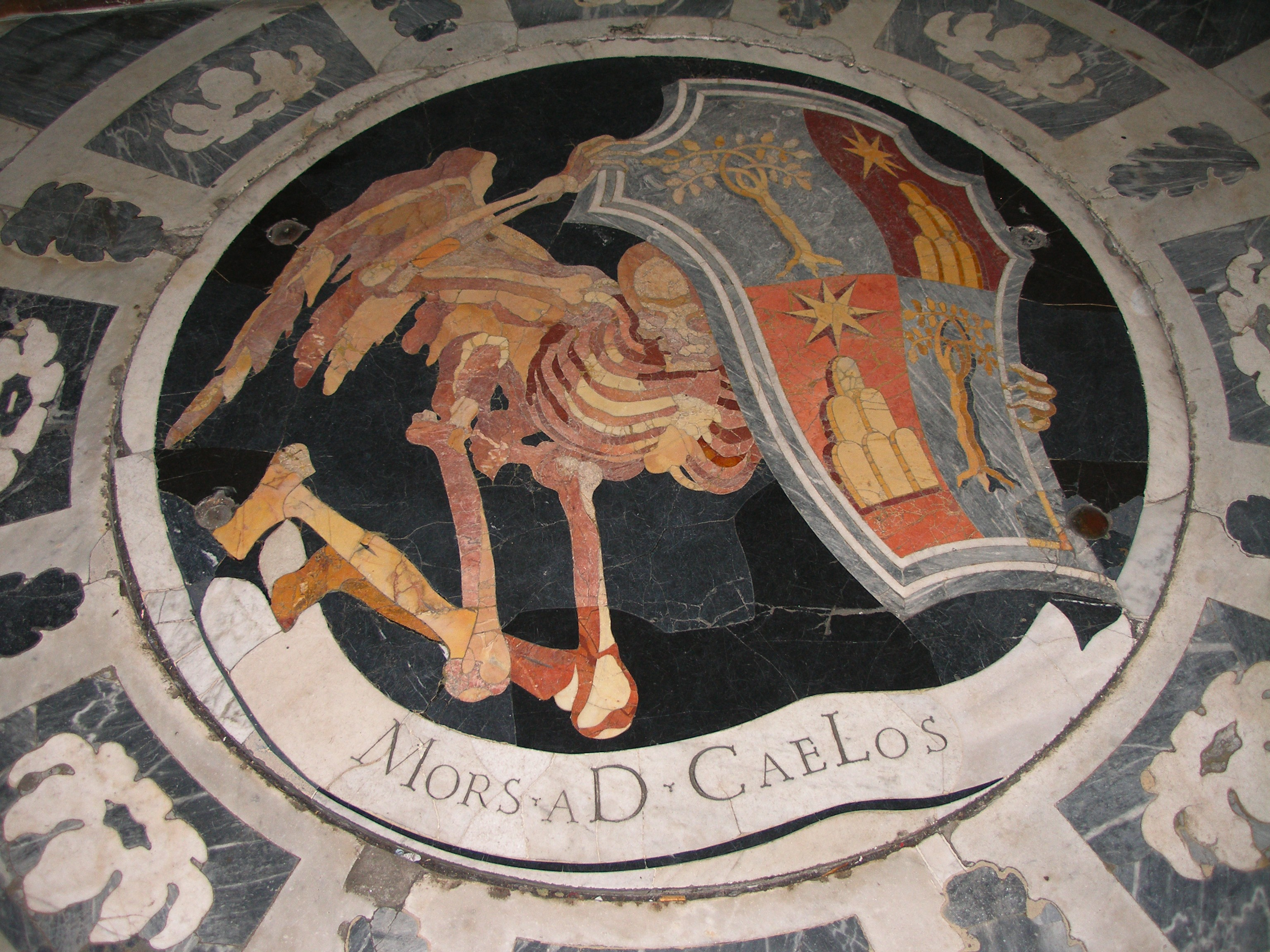 Santa Maria del Popolo in Rome, Italy: Chigi chapel. Incrustated floor with the coats of arms of the House of Chigi hold by the Death.